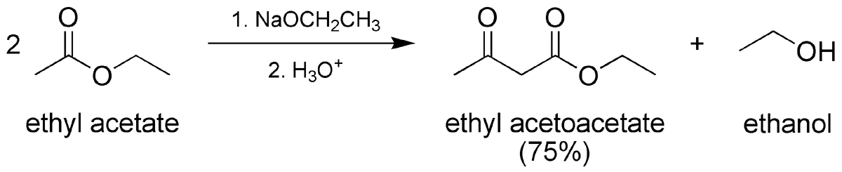 The Claisen condensation of ethyl acetate to form ethyl acetoacetate and ethanol